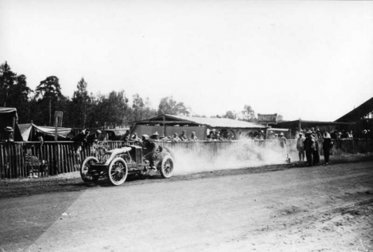 Ferenc Szisz leaving the pits during 1906 French Grand Prix